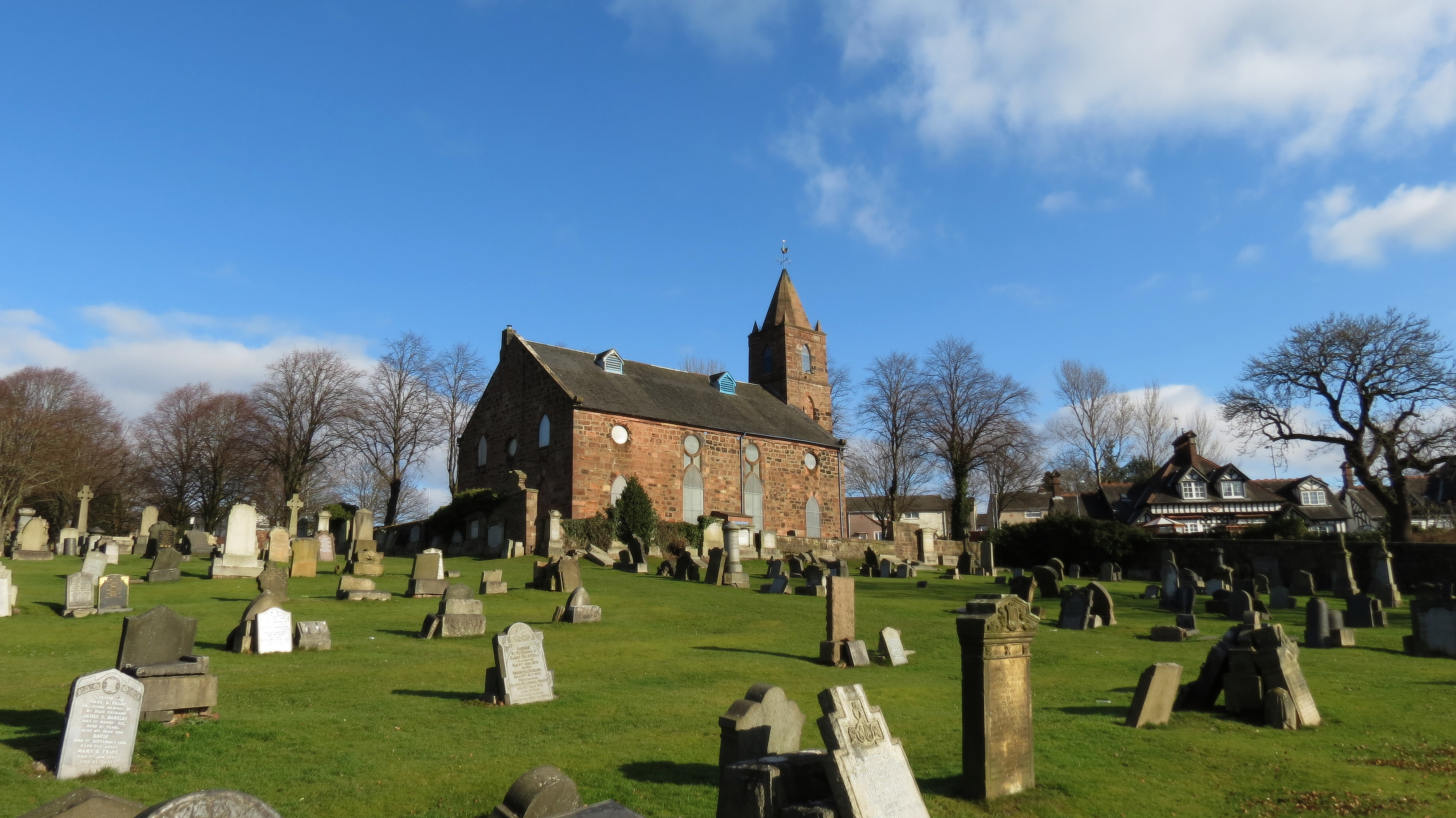 Old Monkland Church